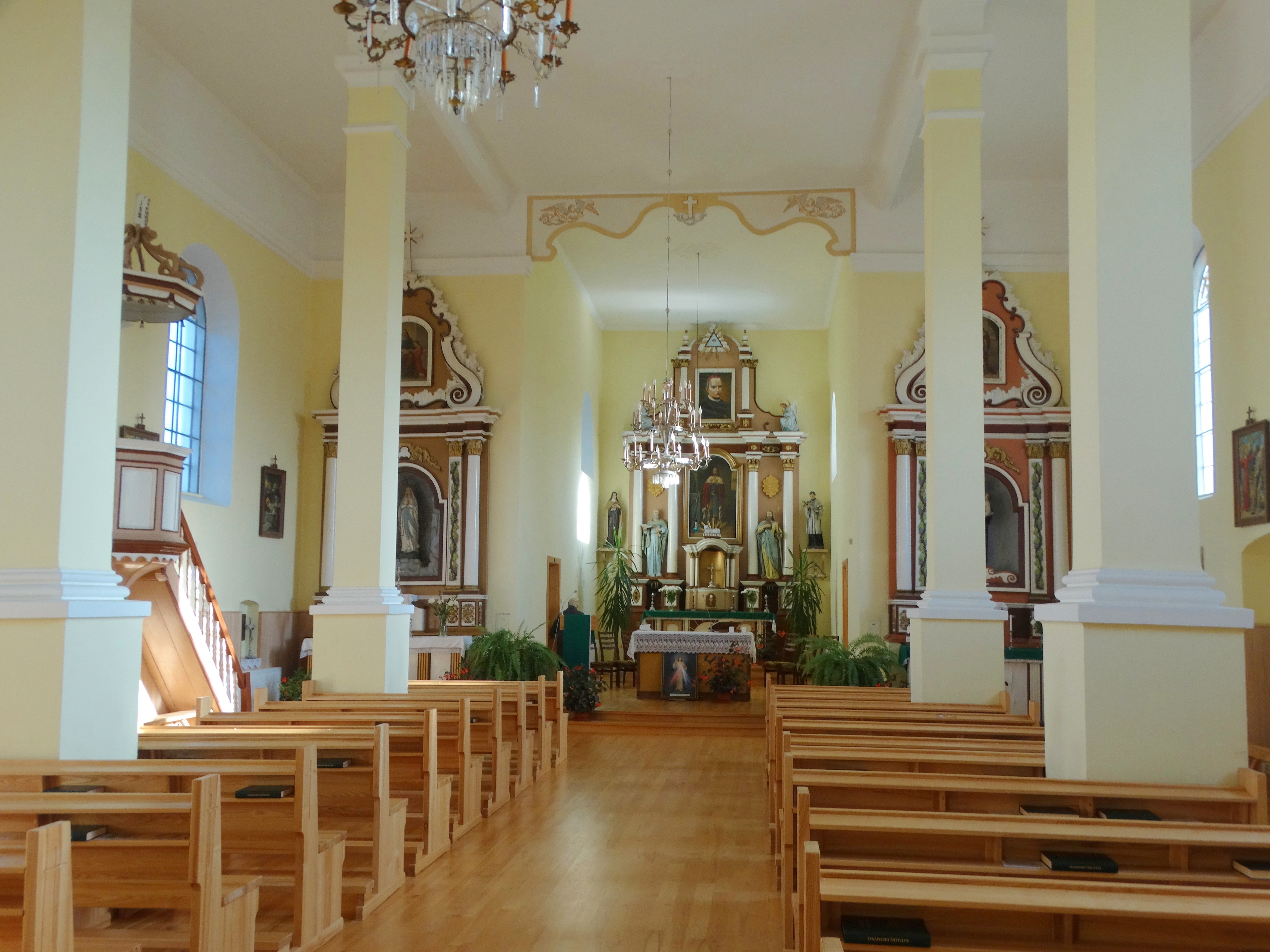 Catholic Church in Veiveriai, Prienai district, Lithuania